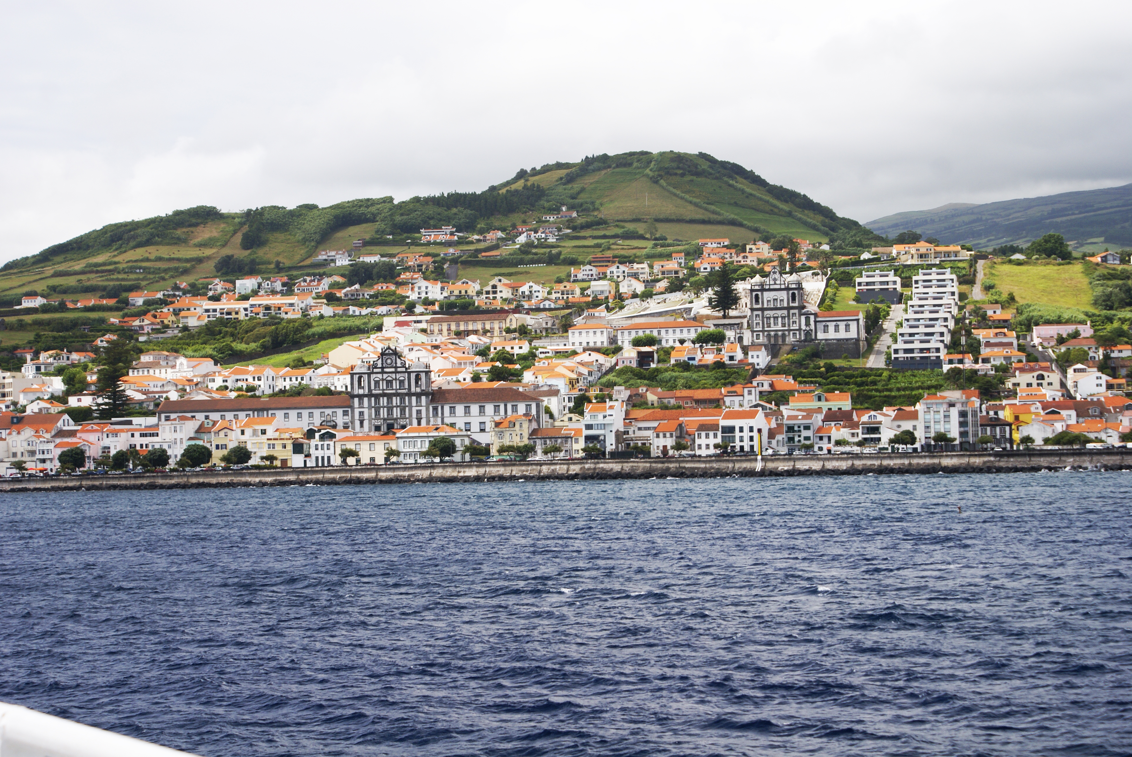 cidade da Horta vista da Baía da Horta, ilha do Faial, Açores, Portugal